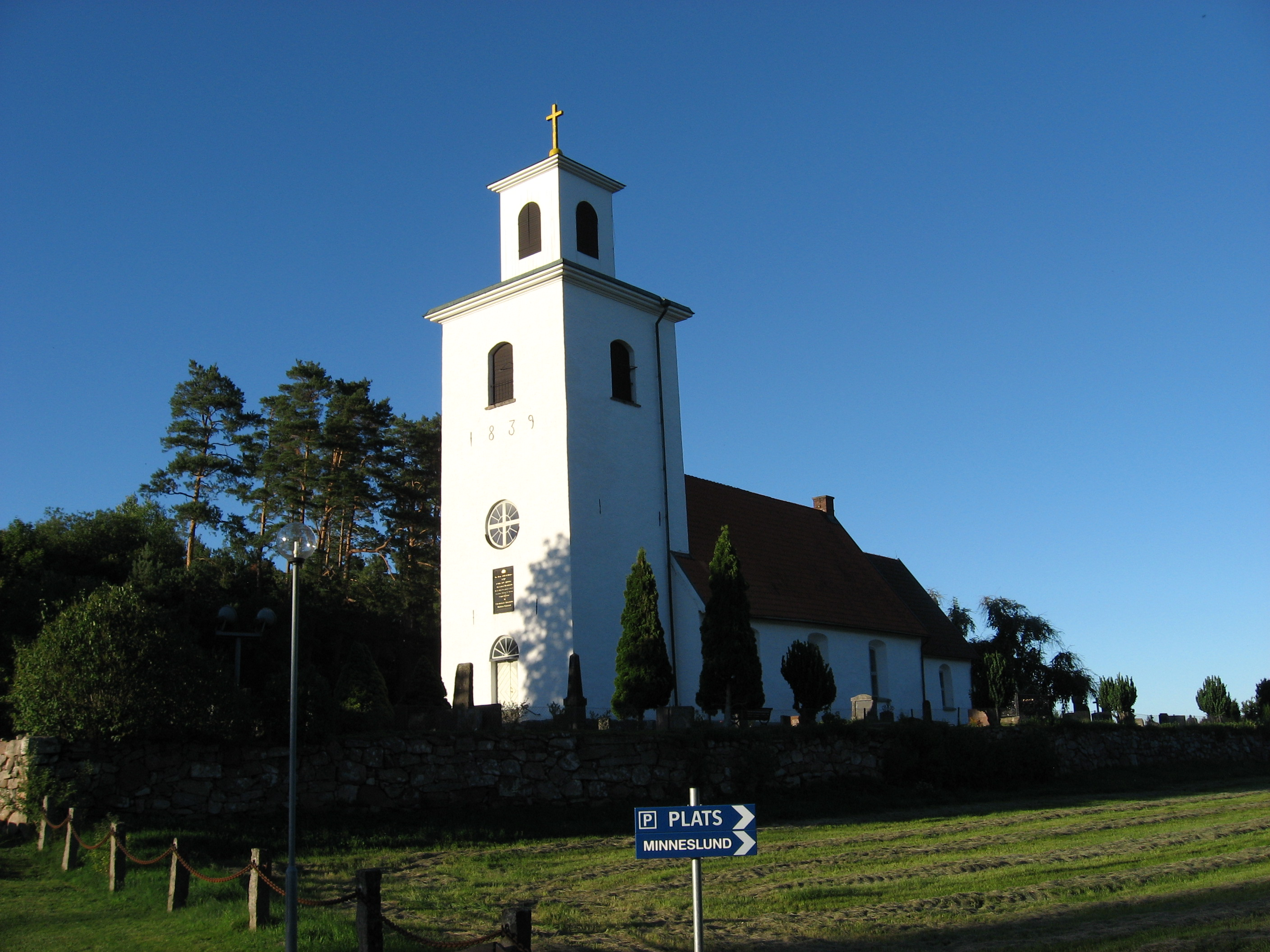 The church of Visseltofta, Osby, Sweden.